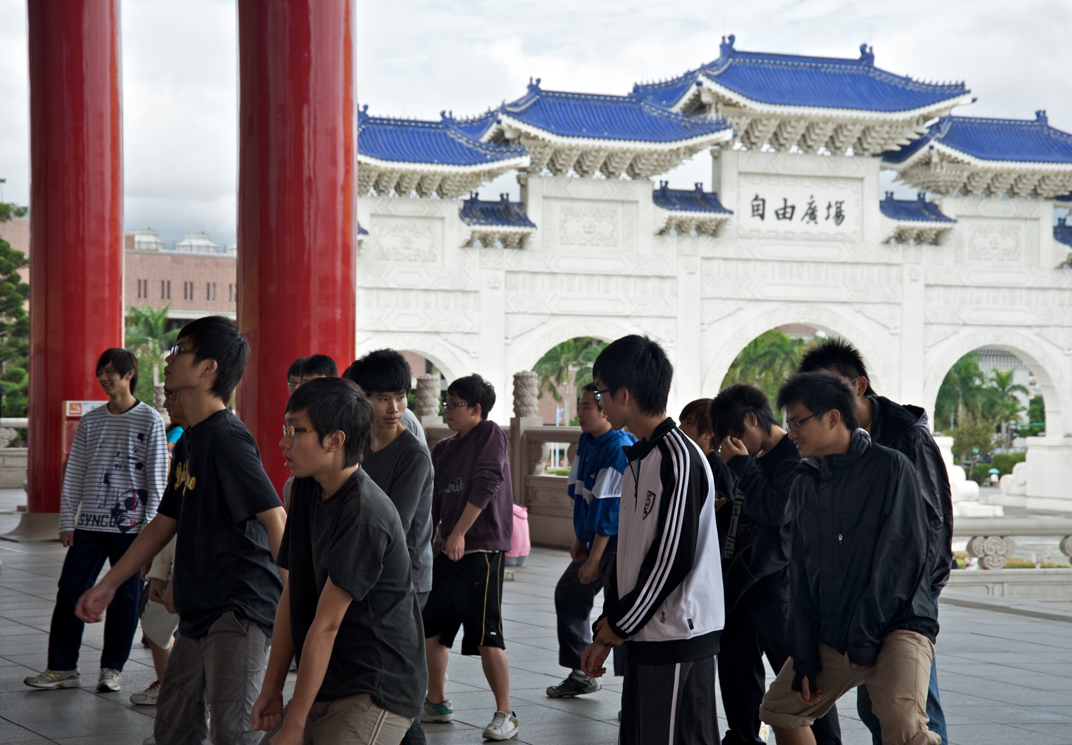 Students dancing outside of the National Theater.